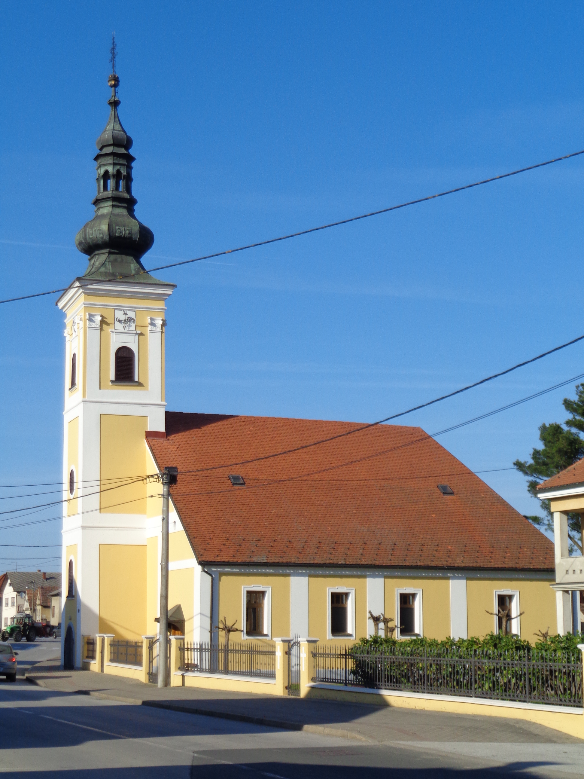 Saint Mary Magdalene Church in Donji Kraljevec village, Medjimurje County, Croatia